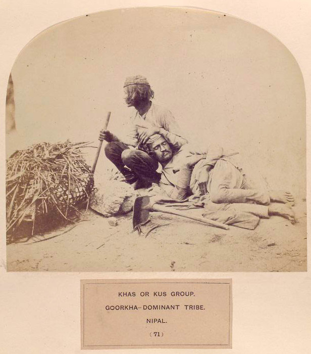 This image is from the book, The People of India, a series of photographic illustrations, with descriptive letterpress, of the races and tribes of Hindustan, originally prepared under the authority of the government of India, and reproduced. by J. Forbes Watson and John William Kaye between 1868 - 1875.